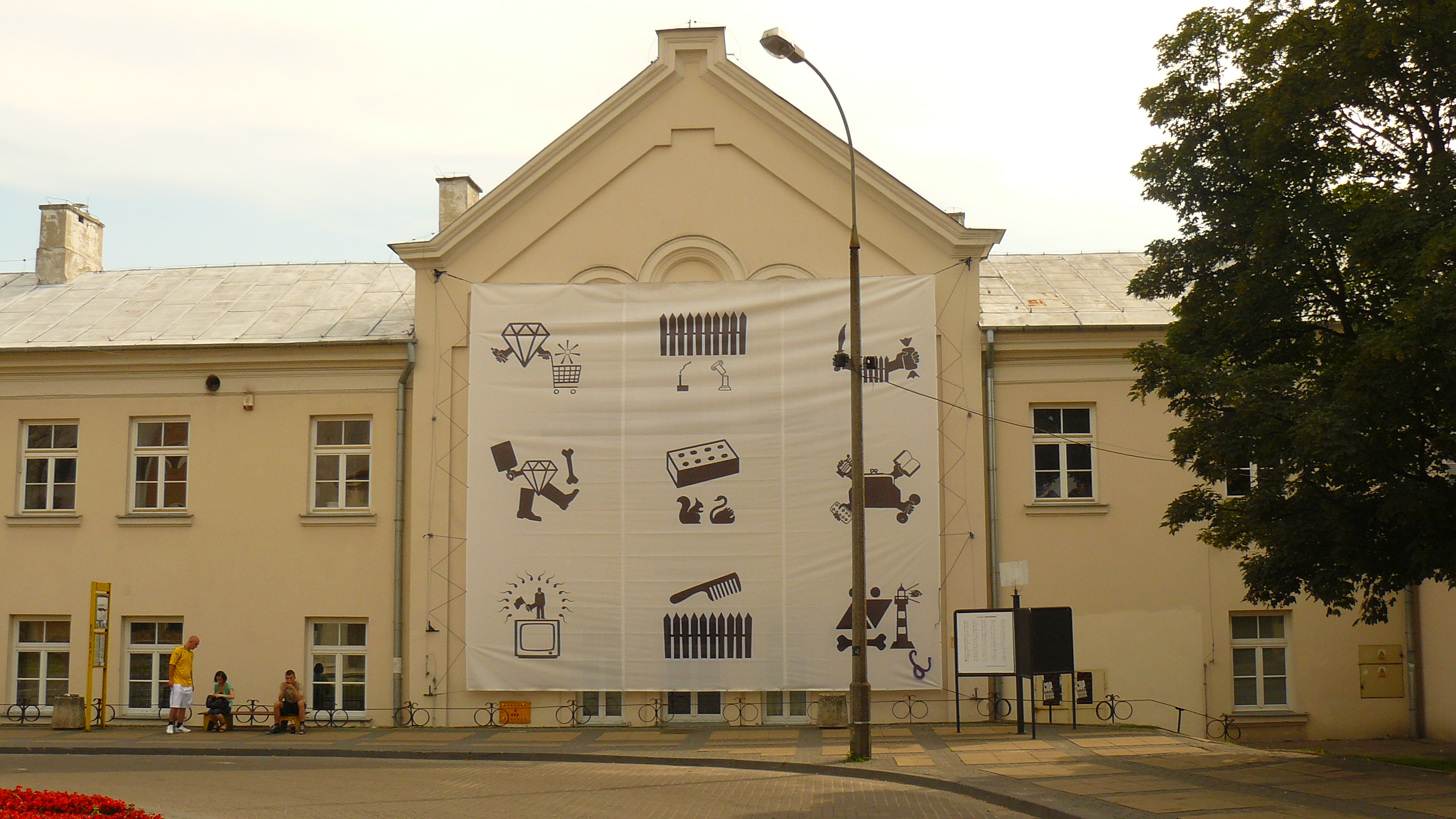 Art vision of the history of the CK building in Lublin. Grupa R.E.P.